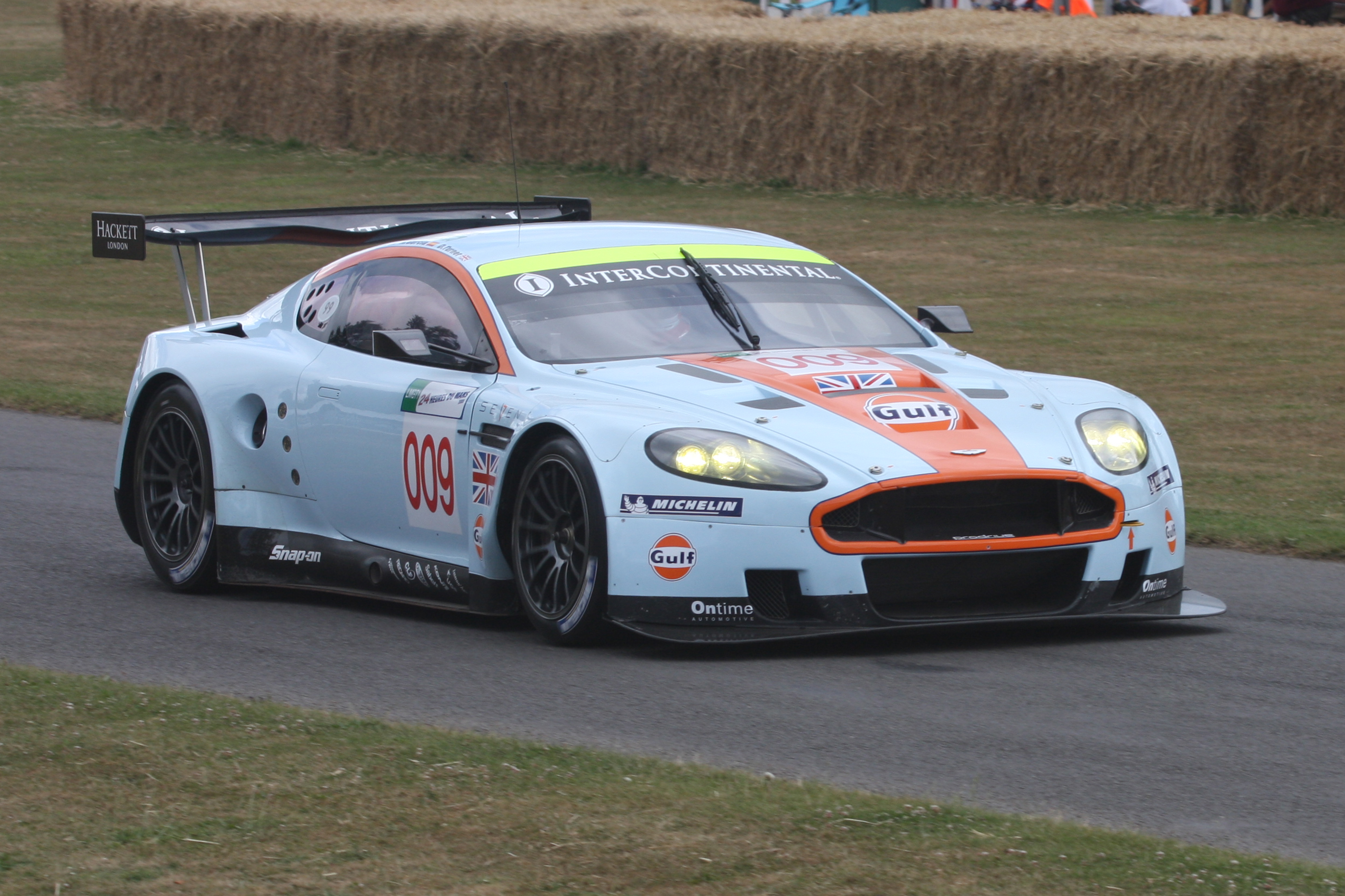 2008 Aston Martin DBR9